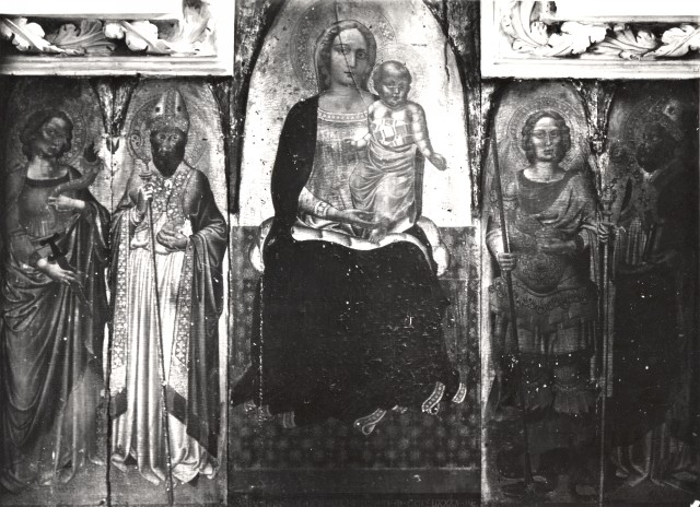 Puccinelli Angelo , Madonna con Bambino. 1394, Varano in Lunigiana (Licciana Nardi) , Pieve di S. Nicolò